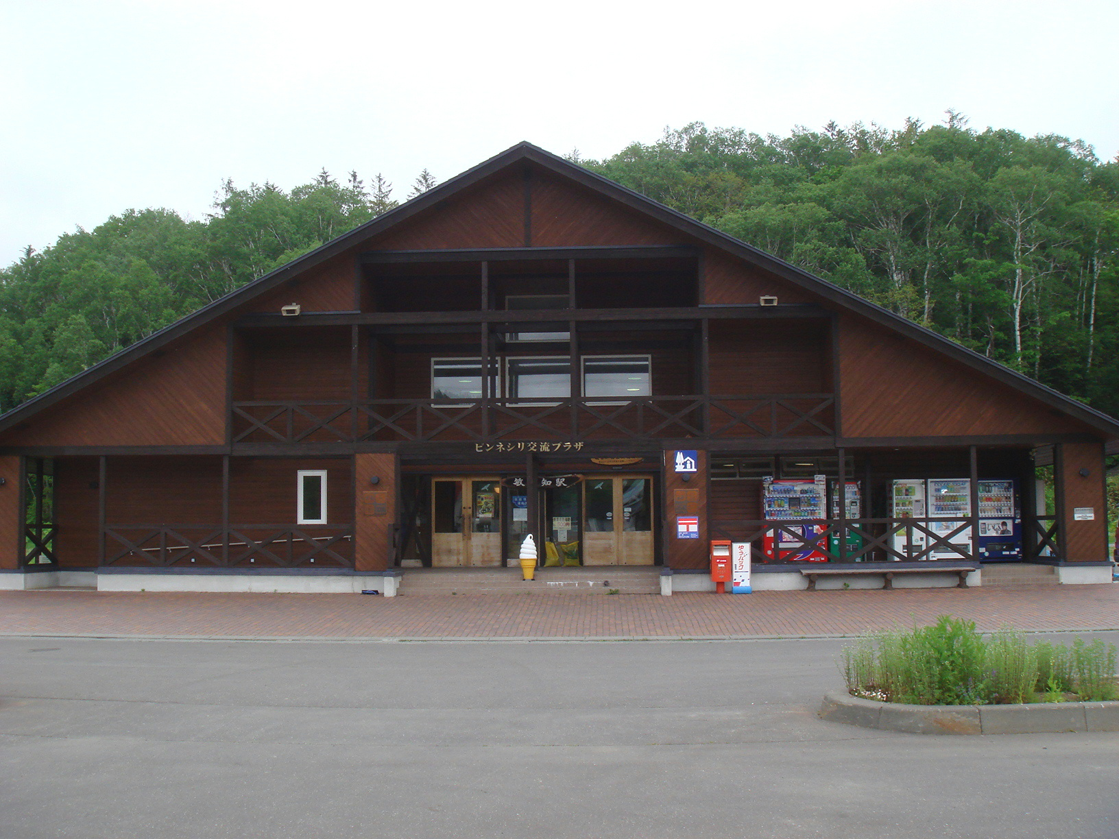 Michinoeki(Roadside Station) Pinneshiri (Esashi, Hokkaidō (Sōya))